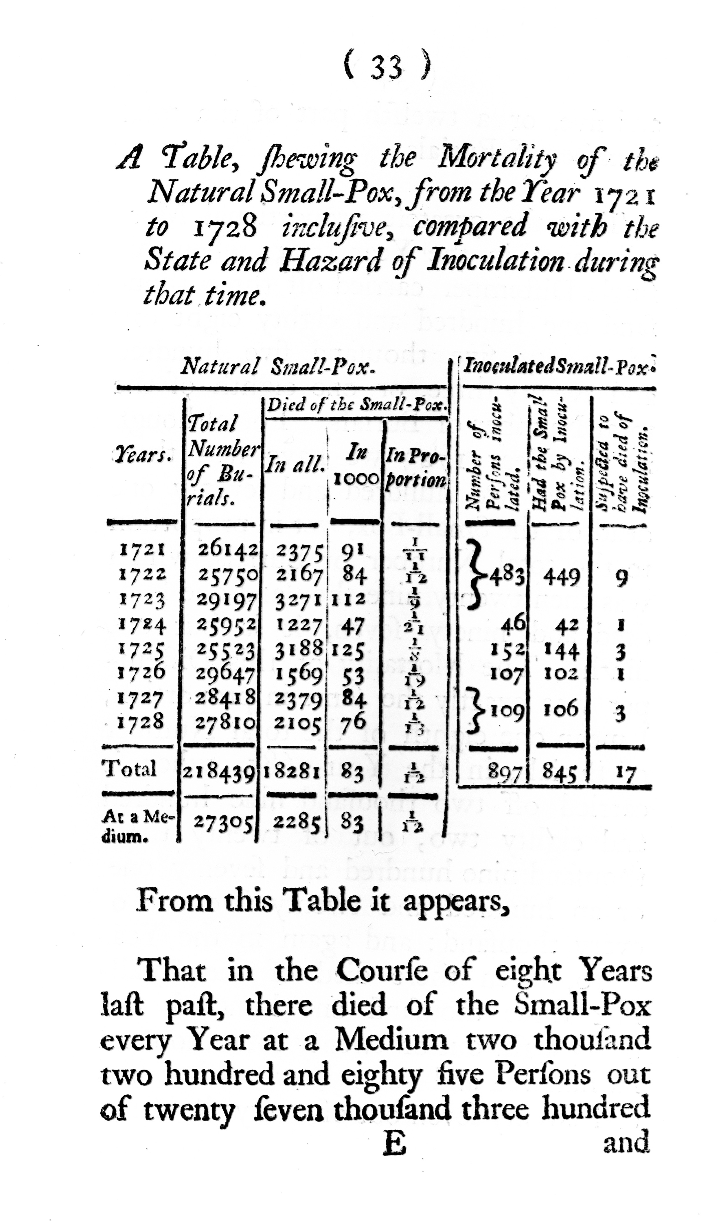 Table showing mortality of smallpox from 1721-9 and the hazard inoculation. Wellcome Images Keywords: Immunology; Smallpox